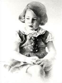 One of the first portraits done by Carroll Jones III. "I placed an ad in the local paper to get a few more portraits before I left in the fall. The response was overwhelming. I received enough commissions to last at least 6 months and my new career was started..." In a 10 year period, he drew over 350 portraits. Quote from Jones III, Nathaniel Press. Copyright 2013